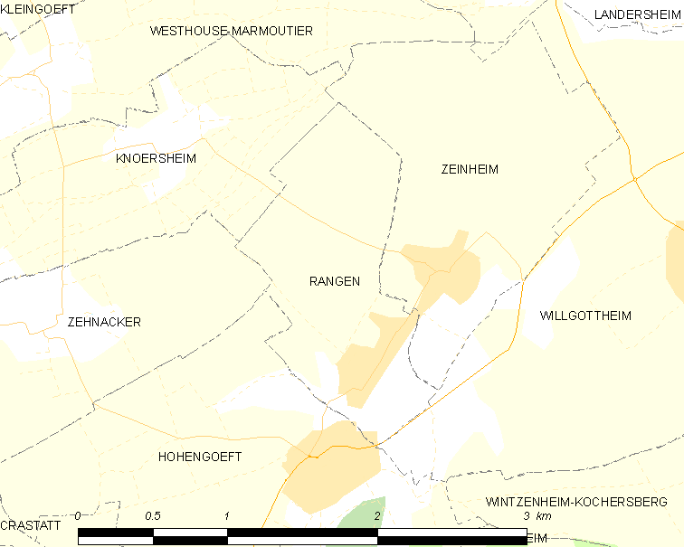 Map of French municipality